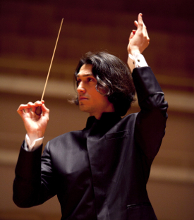 Kamdzhalov conducts in the Philharmonie Berlin, International ensemble Innorelatio Berlin